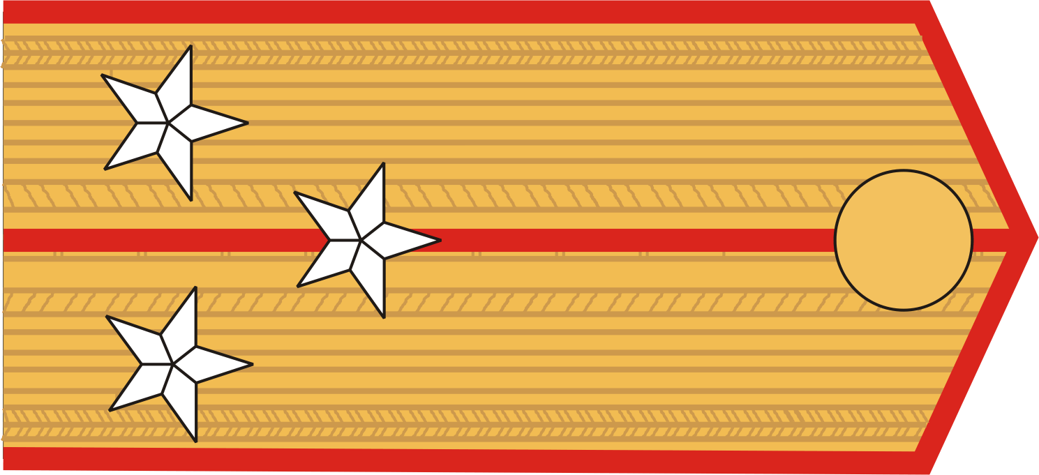 Russian rank insignia (1943-1945), here "First lieutenant" (OF1) – shoulder strap Army (infantry, motorized infantry) field uniform, color khaki.